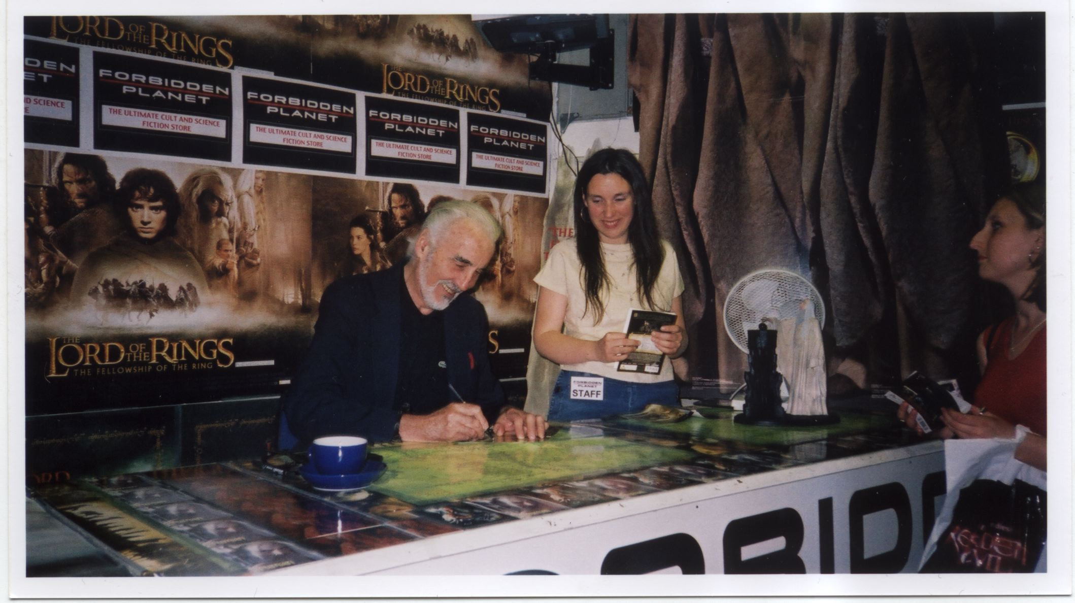 Christopher Lee at Forbidden Planet New Oxford Street, signing The Two Towers.